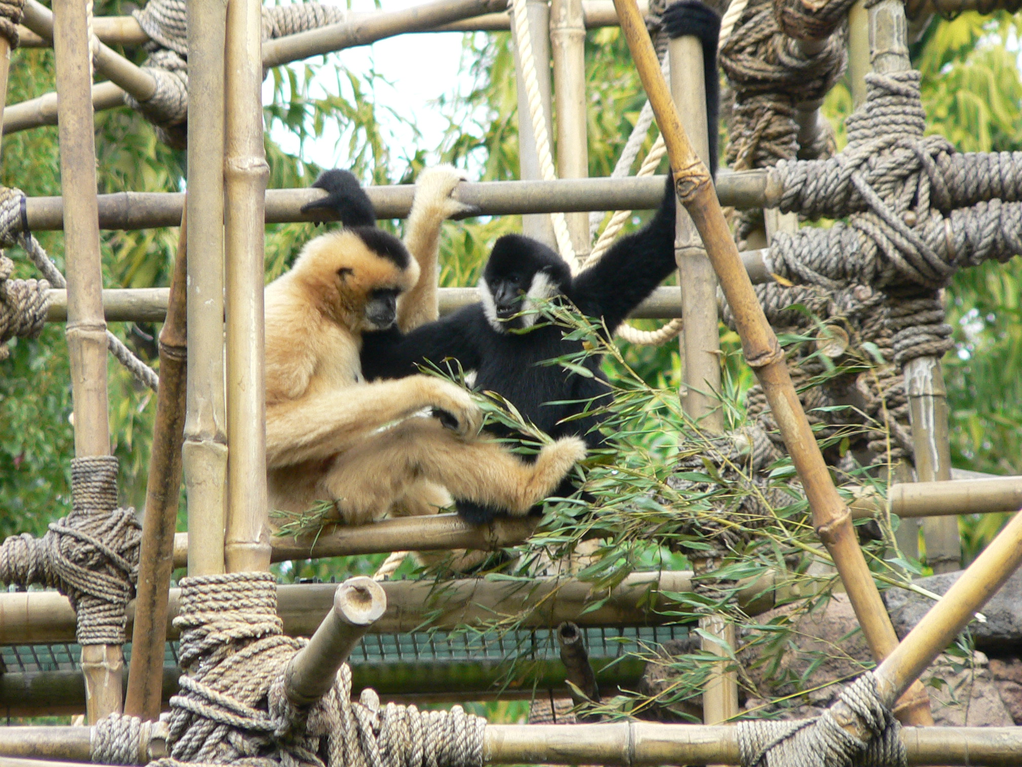 Female and male White-cheeked Crested Gibbon in Disney's Animal Kingdom.